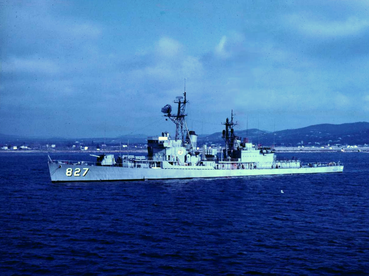 The U.S. Navy destroyer USS Robert A. Owens (DD-827) leaving Toulon, France, in February 1967.